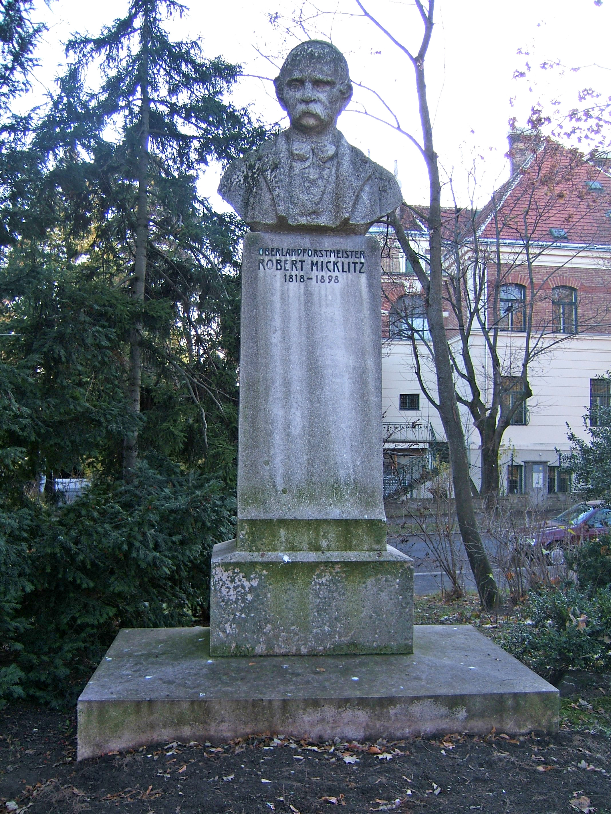 Statue of Robert Micklitz in Vienna 19th district Linnèplatz